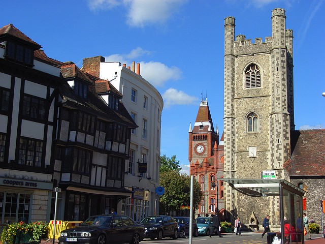 Part of Market Place in Reading, Berkshire, England. The church is St Laurence's Church, whilst the red and grey brick building behind in Reading Town Hall. For more information see the Wikipedia article St Laurence's Church, Reading.